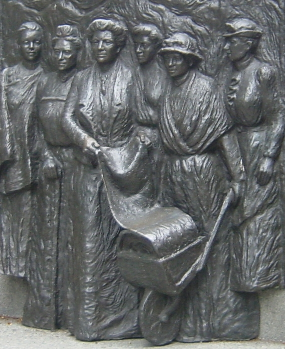 A cropped version of the Kate Sheppard National Memorial, Christchurch by Robert Cutts, under CC-BY-2.0 license.